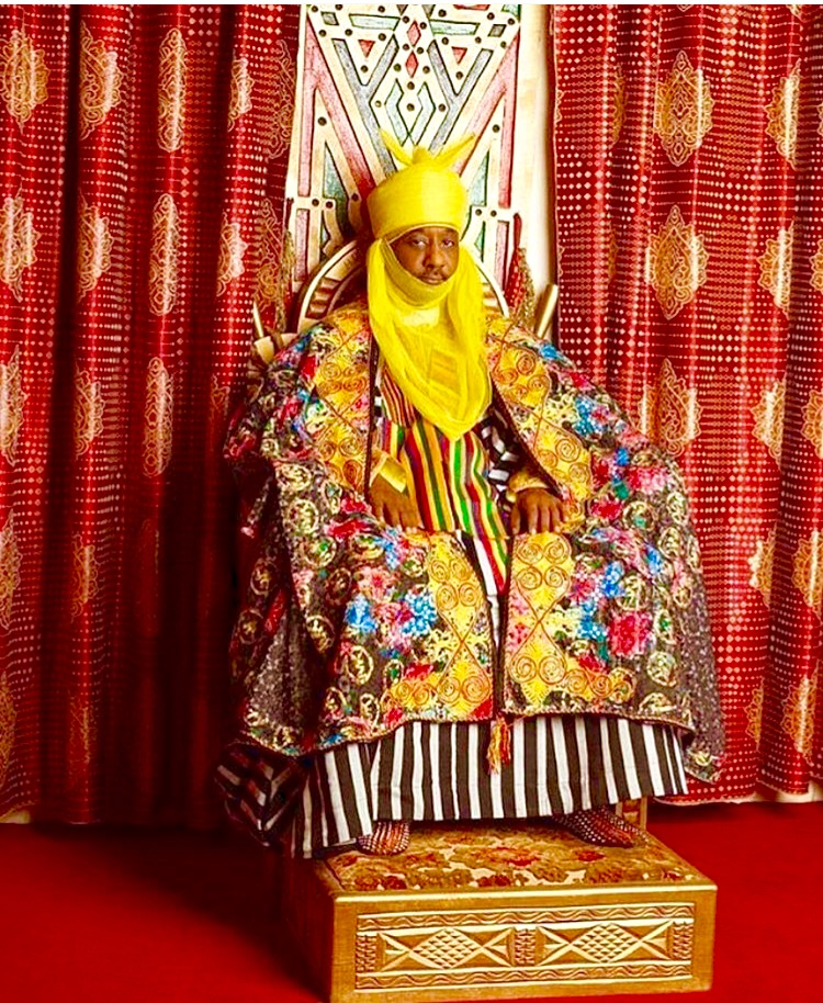 Fadan sarkin Kano - Sanusi Lamido Sanusi